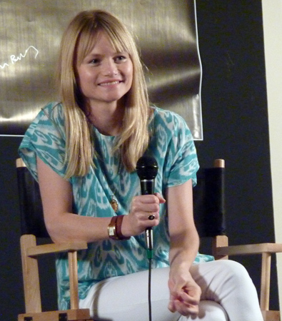 Lindsay Pulsipher at a Showmasters Convention in 2012